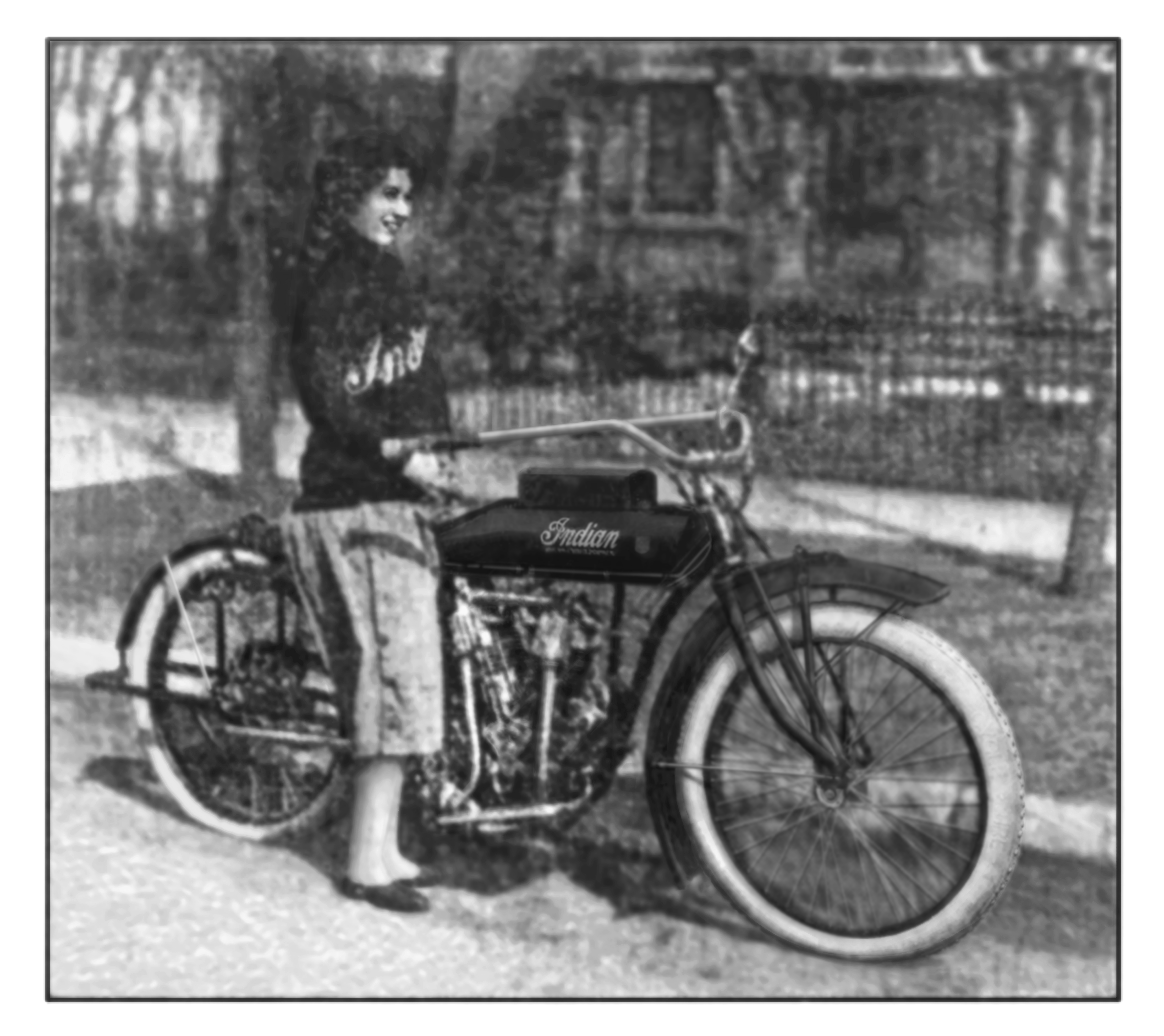 Sadie Grimm standing beside her 1914 Indian Motorcycle